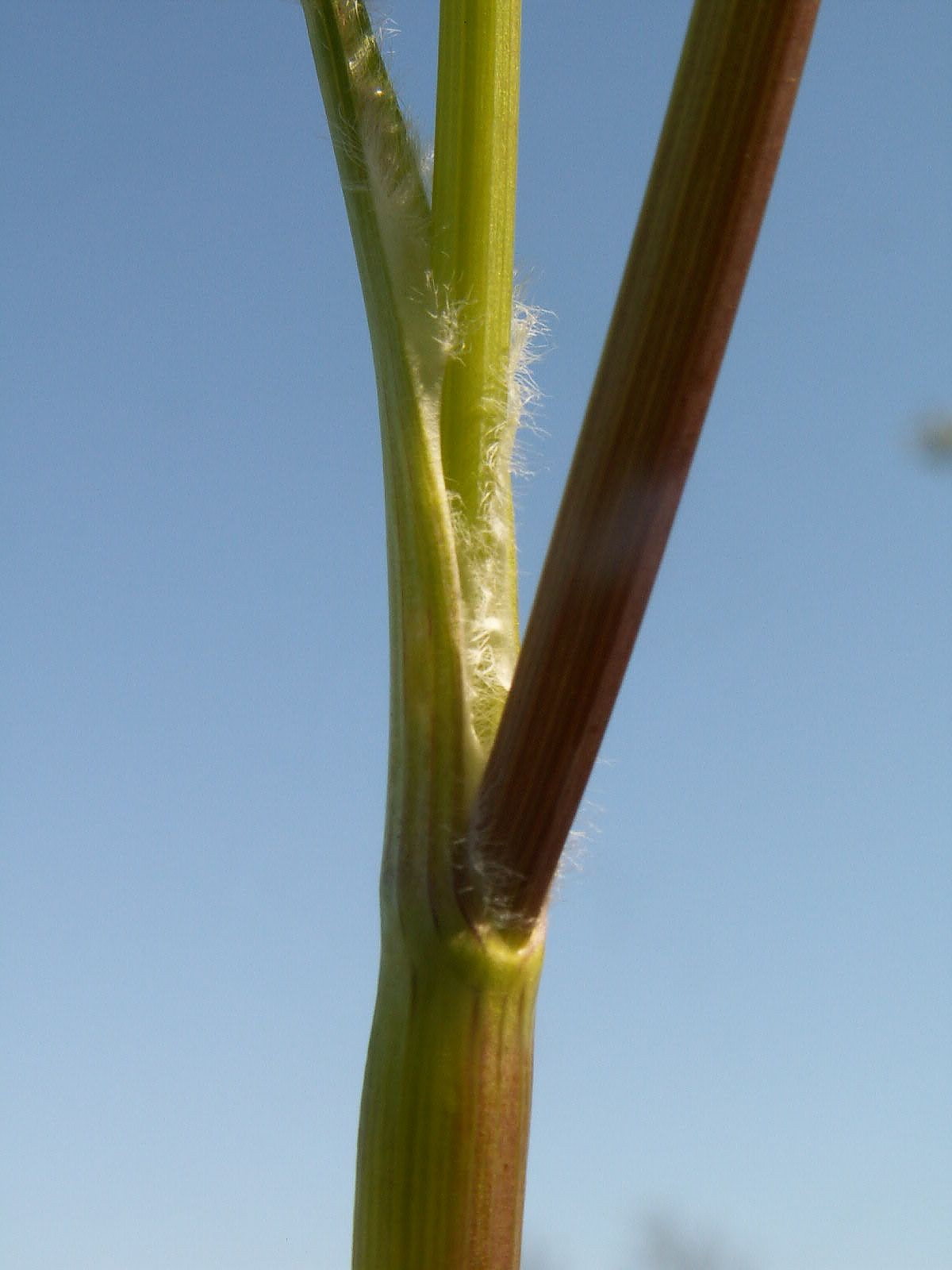 Sheath of Anthriscus caucalis leaf